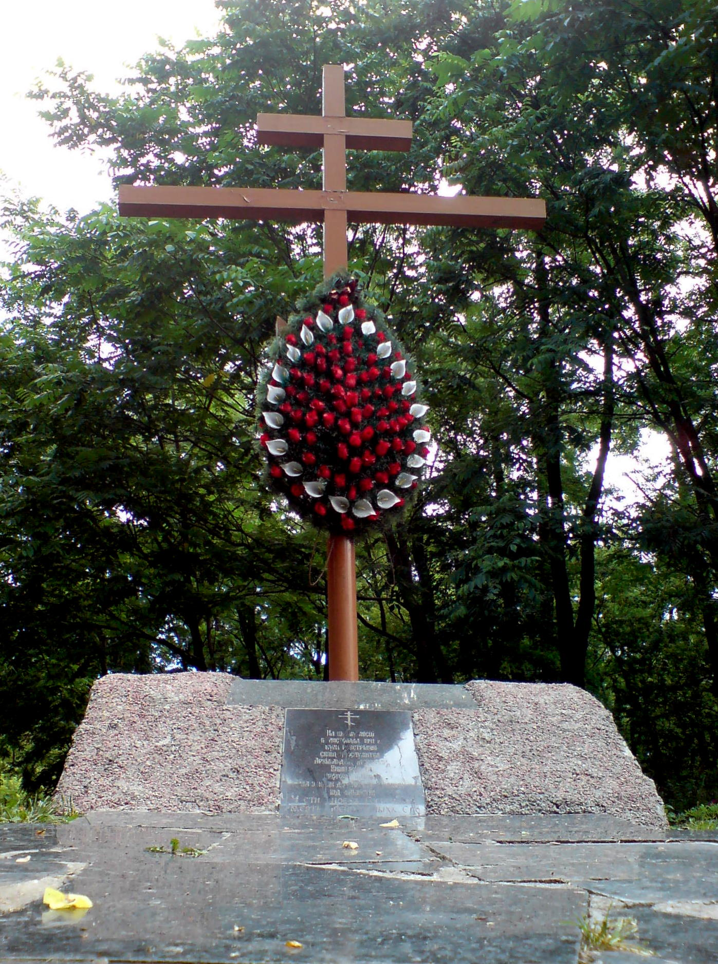 Cross in memory of Orthodox Christian priests shot in Babi Yar in November 1941